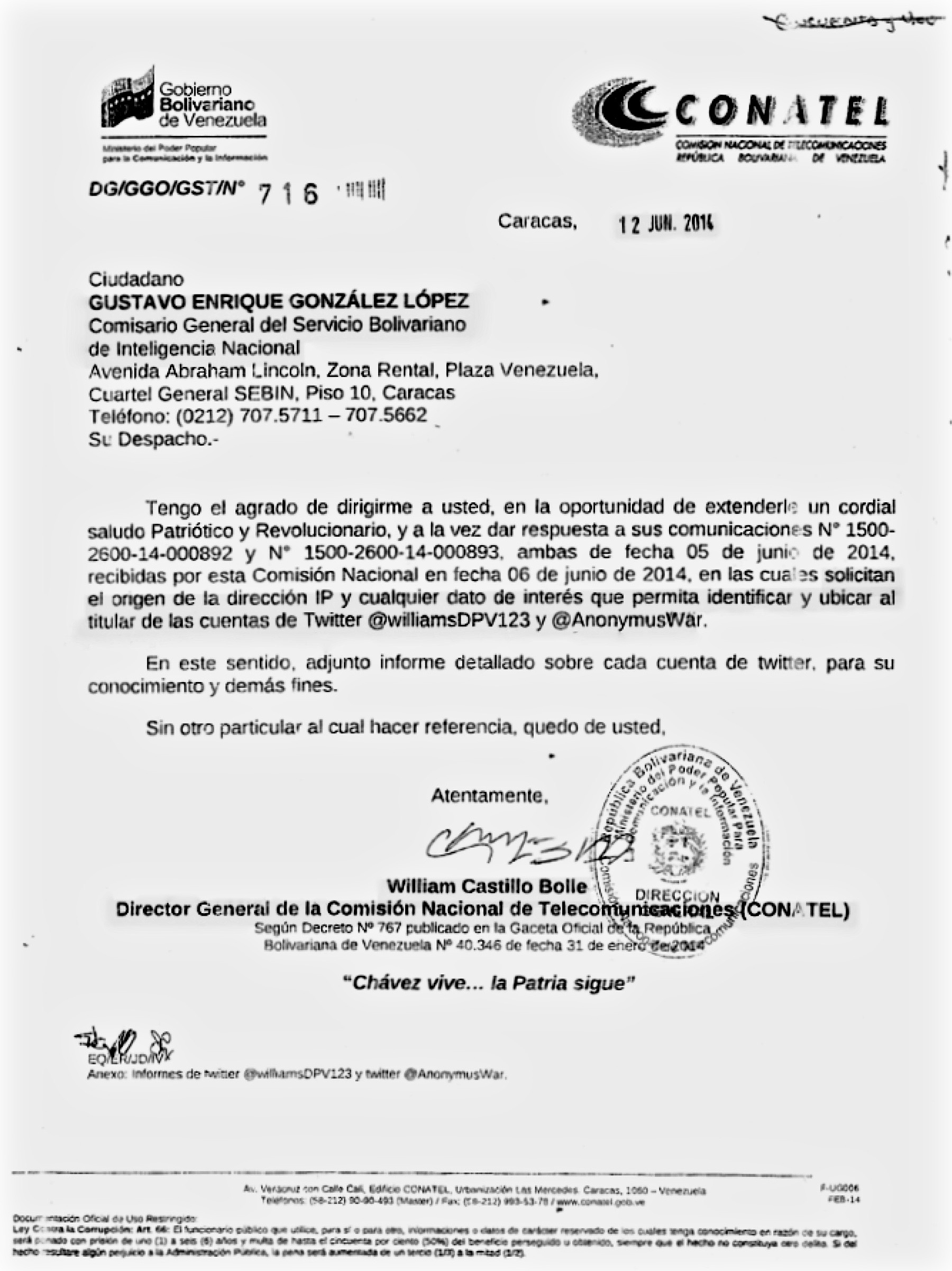 A communication from General Director of CONATEL William Castillo Bolle giving the IP address and other information about Venezuelan Twitter users to SEBIN General Commissioner Gustavo González López the stating: I am pleased to address you on the opportunity to extend a cordial patriotic and revolutionary greeting, while giving response to your communications Number 1500-2600-14-000893 and Number 1500-260014-000892, both dated June 5, 2014, received by the National Commission as of June 6, 2014, in which they seek the origin of of the IP address and information of interest to identify and locate the owner of the Twitter accounts @williamsDPV123 and @AnonymusWar. In this regard, I attached a detailed report on each Twitter account, for your knowledge and other purposes. Having nothing further to add, yours truly, Sincerely, William Castillo Bolle Director General of the National Telecommunications Commission (CONATEL)